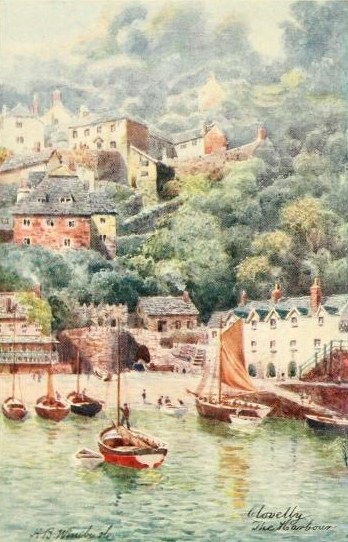 Clovelly, the harbour (Devon)